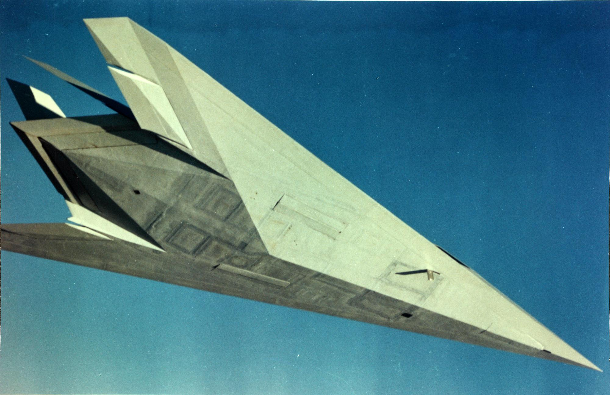 HAVE BLUE during testing, late 1970s.